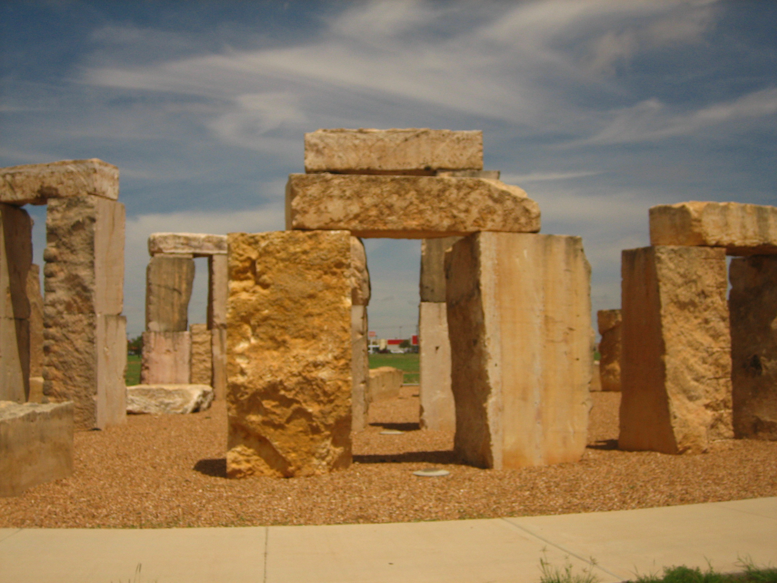 I took photo in July 2008.Billy Hathorn (talk) 03:27, 4 July 2009 (UTC)